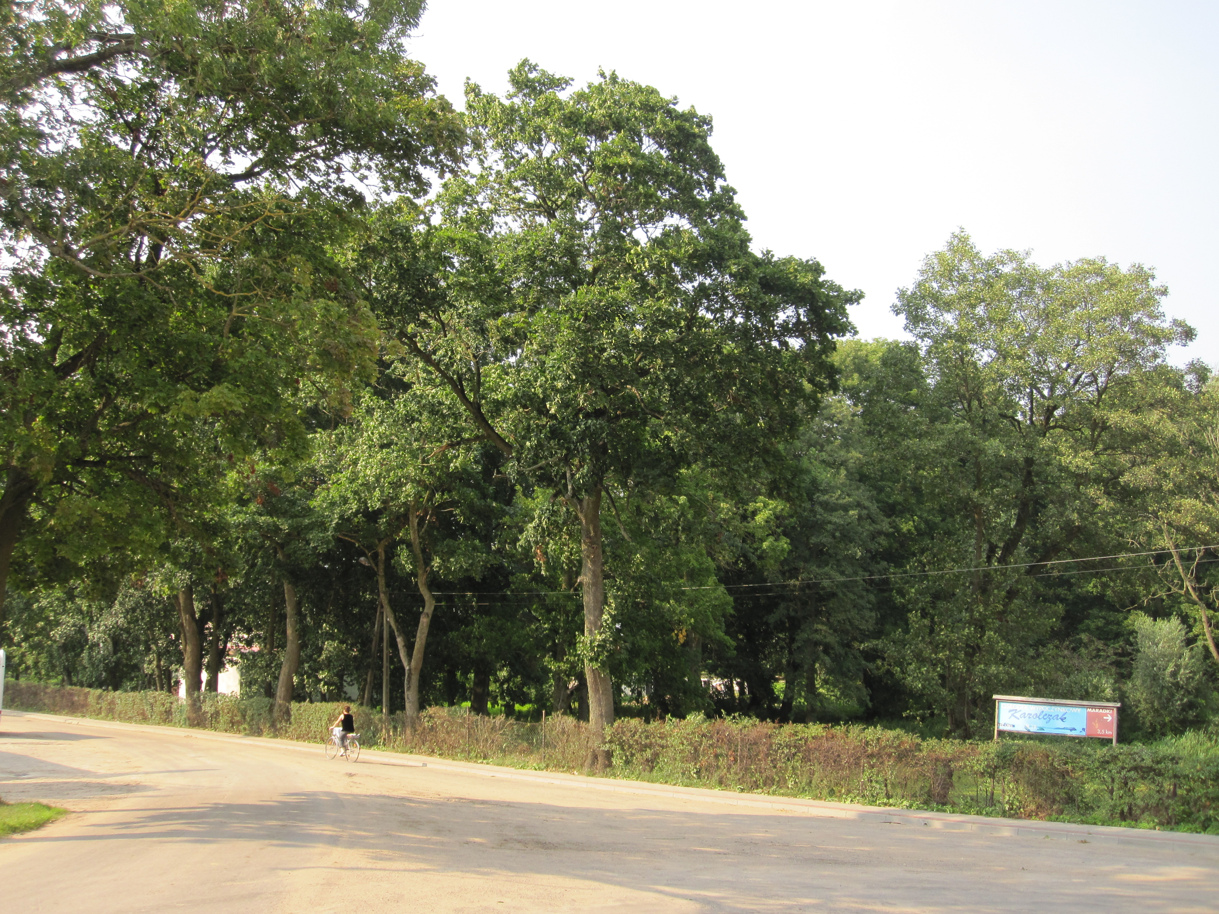 Park in Rozogi (powiat mrągowski)